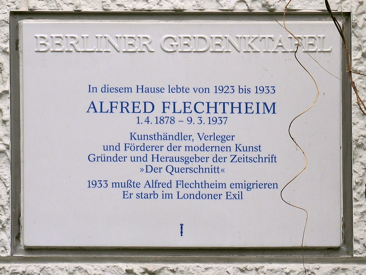 Berlin memorial plaque, Alfred Flechtheim, Bleibtreustraße 15, Berlin-Charlottenburg, Germany